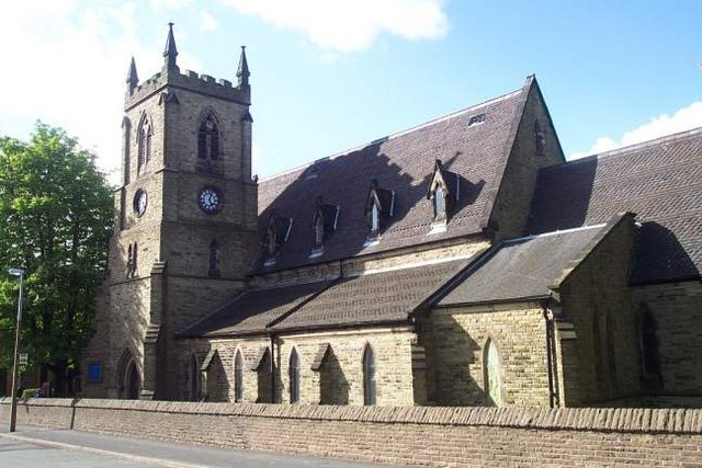 St Peter's parish church, Windmill Street, Macclesfield, Cheshire, seen from the southeast